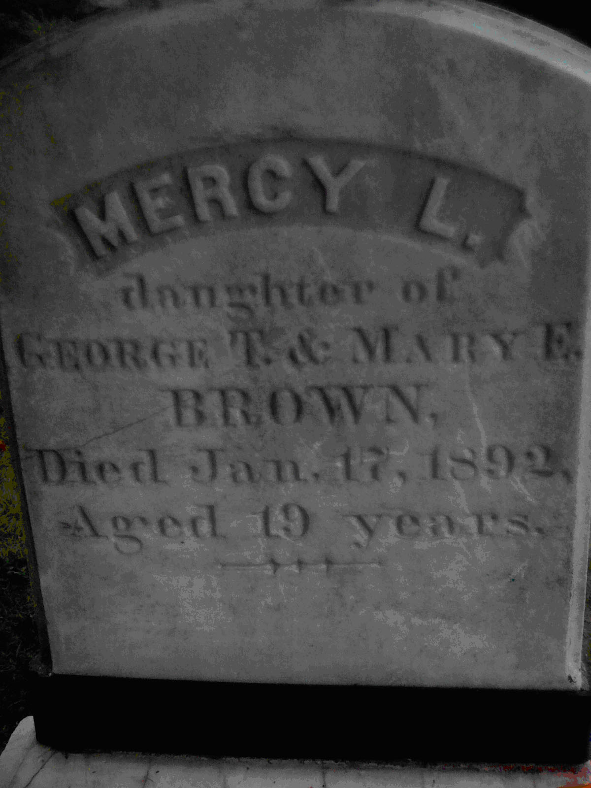 I was always fascinated with the Mercy Brown story as a child. In the spirit of Halloween and of fatherhood having my own children now I took the opportunity to snap a picture of Mercy's current grave stone. This must have been replaced in the last 30 years as it looks much newer than I remember but for better or worse here it is - the real thing.